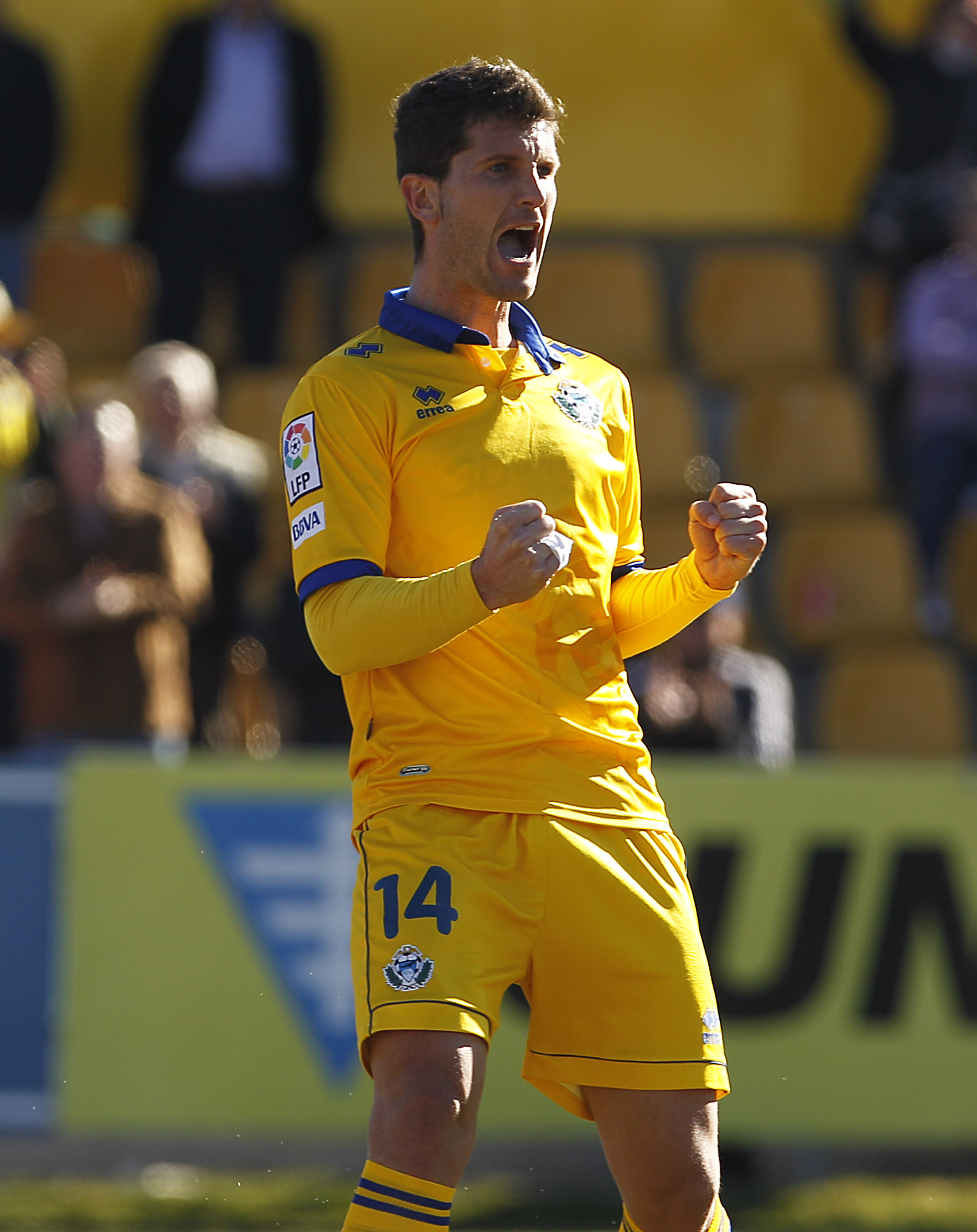 Quini is the best scorer to the A.D. Alcorcón history